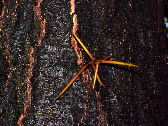 Species: Gleditsia japonica Family: Fabaceae Image No. 1